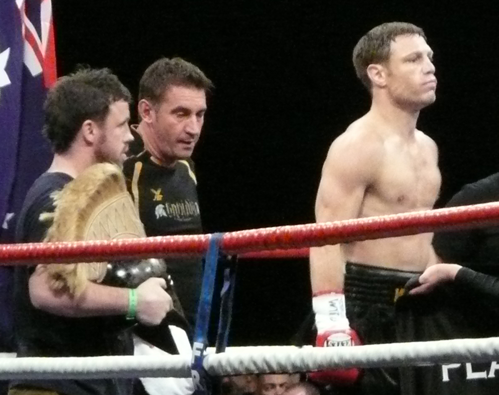 Michael Katsidis (right) with former trainer and manager Brendon Smith (centre) and Graham Earl (left) at Wembley Arena, prior to his fight with Ricky Burns.